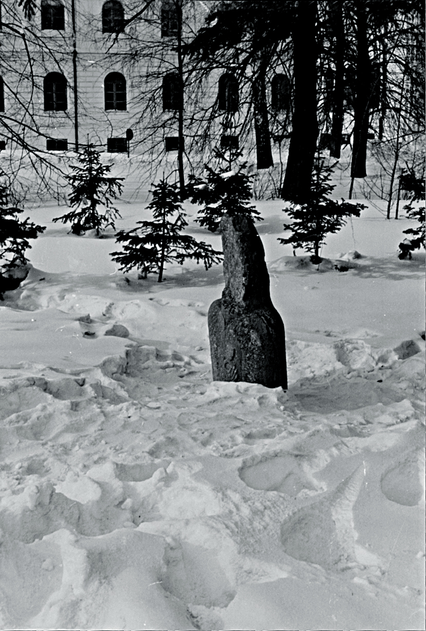 Kurgan stelae before the National Research Tomsk State University